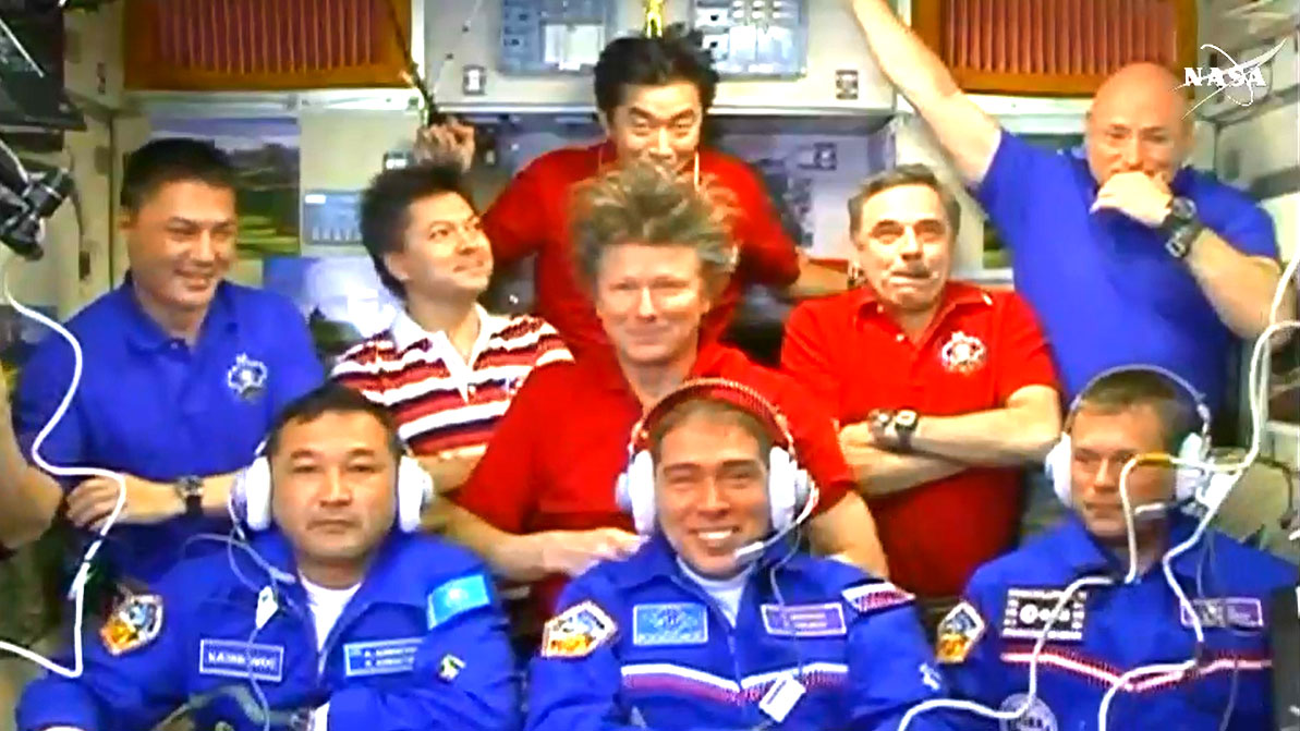 An international crew of nine from the U.S., Russia, Japan, Denmark and Kazakhstan will work together on the orbital laboratory until Sept. 11.